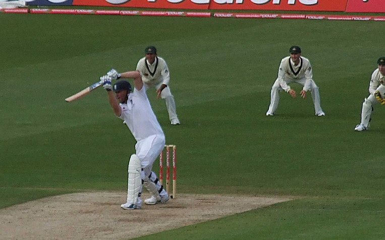 Andrew Flintoff cover drives the ball to the boundary; Ricky Ponting and Michael Clarke are the slips and Brad Haddin is keeping wicket.